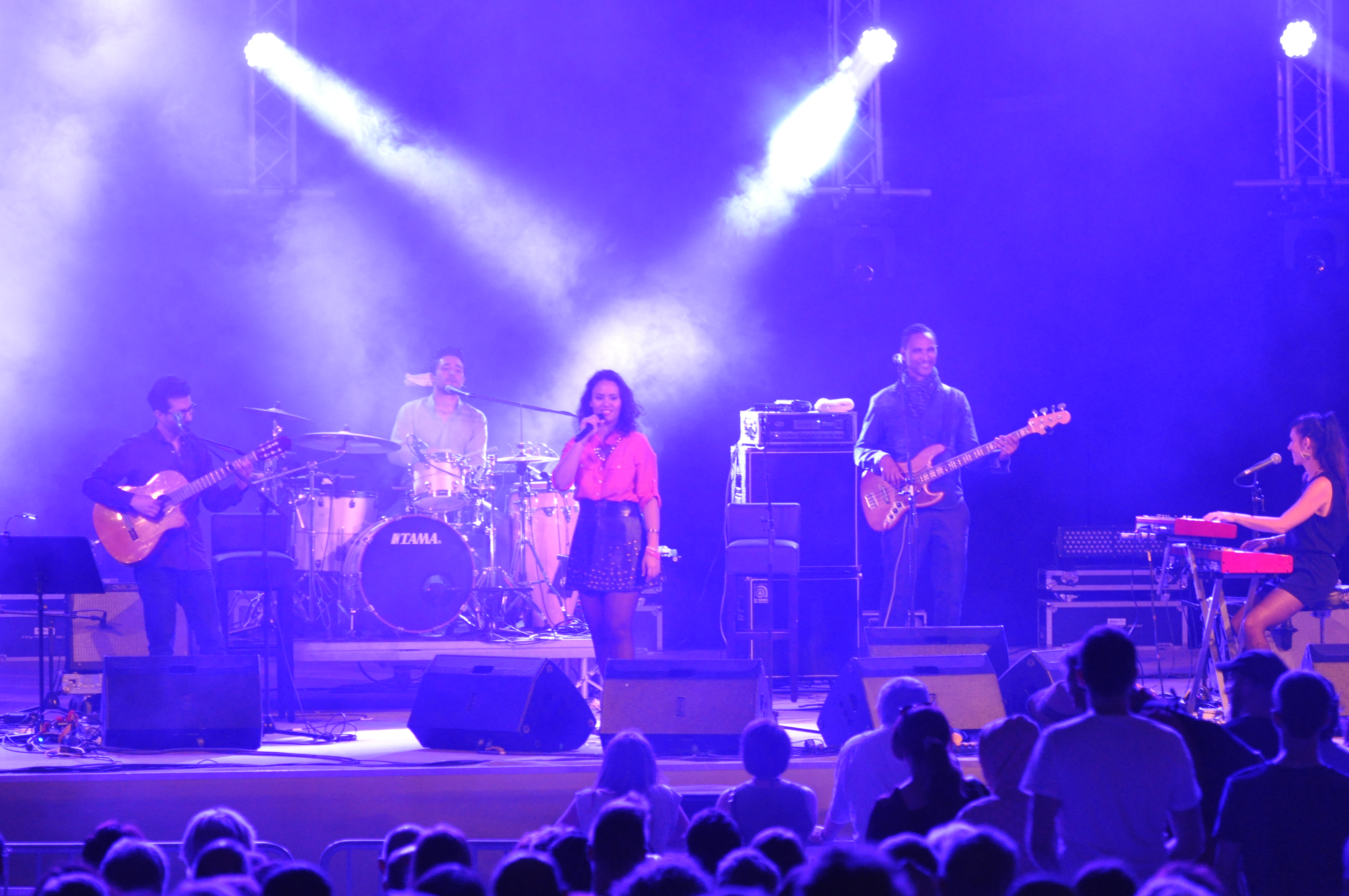 Mayra Andrade (CV), appearance at the 12th World Music Festival "Horizonte" 2014 at the fortress of Ehrenbreitstein, Koblenz (Germany)